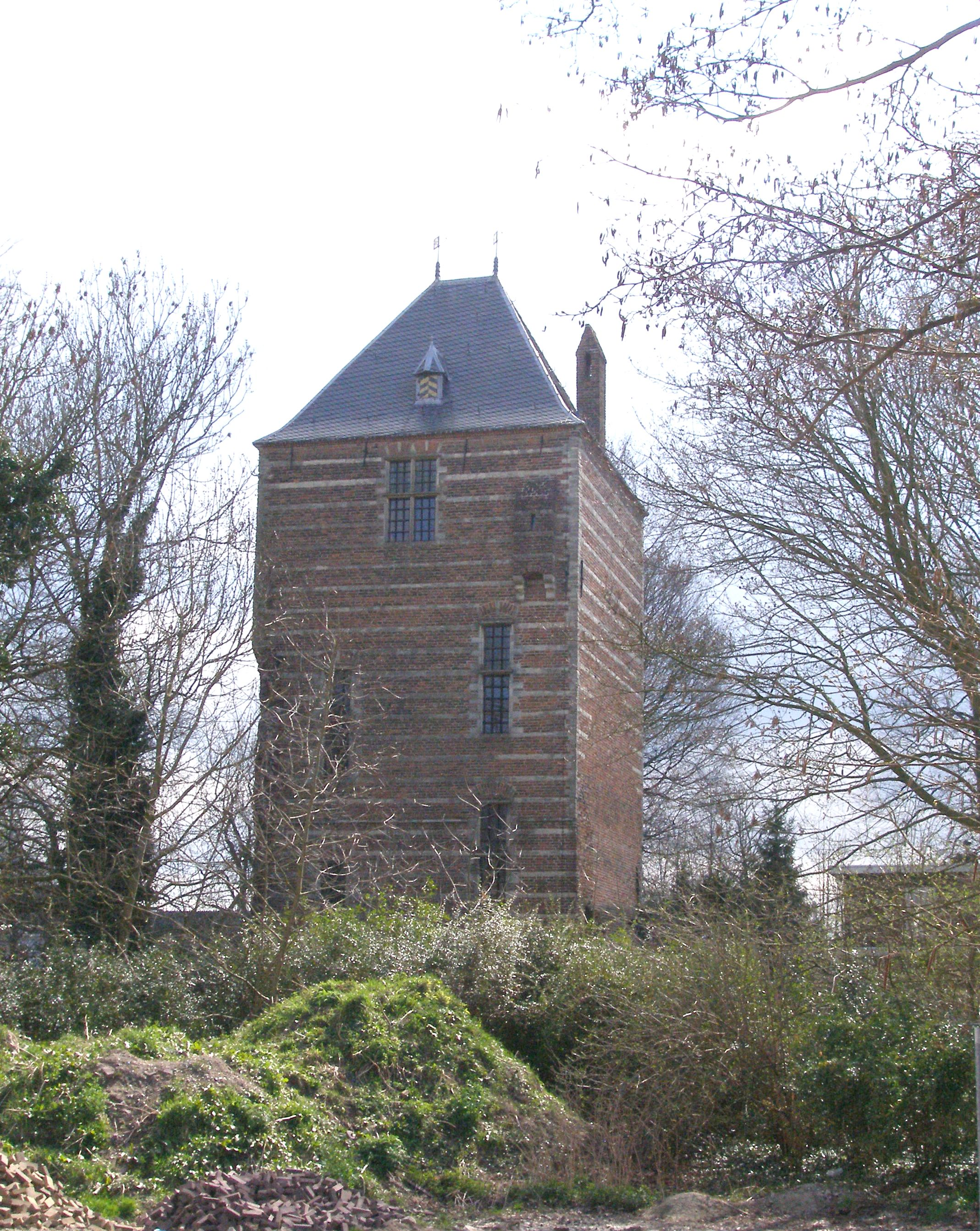 Only remaining tower of IJsselstein castle